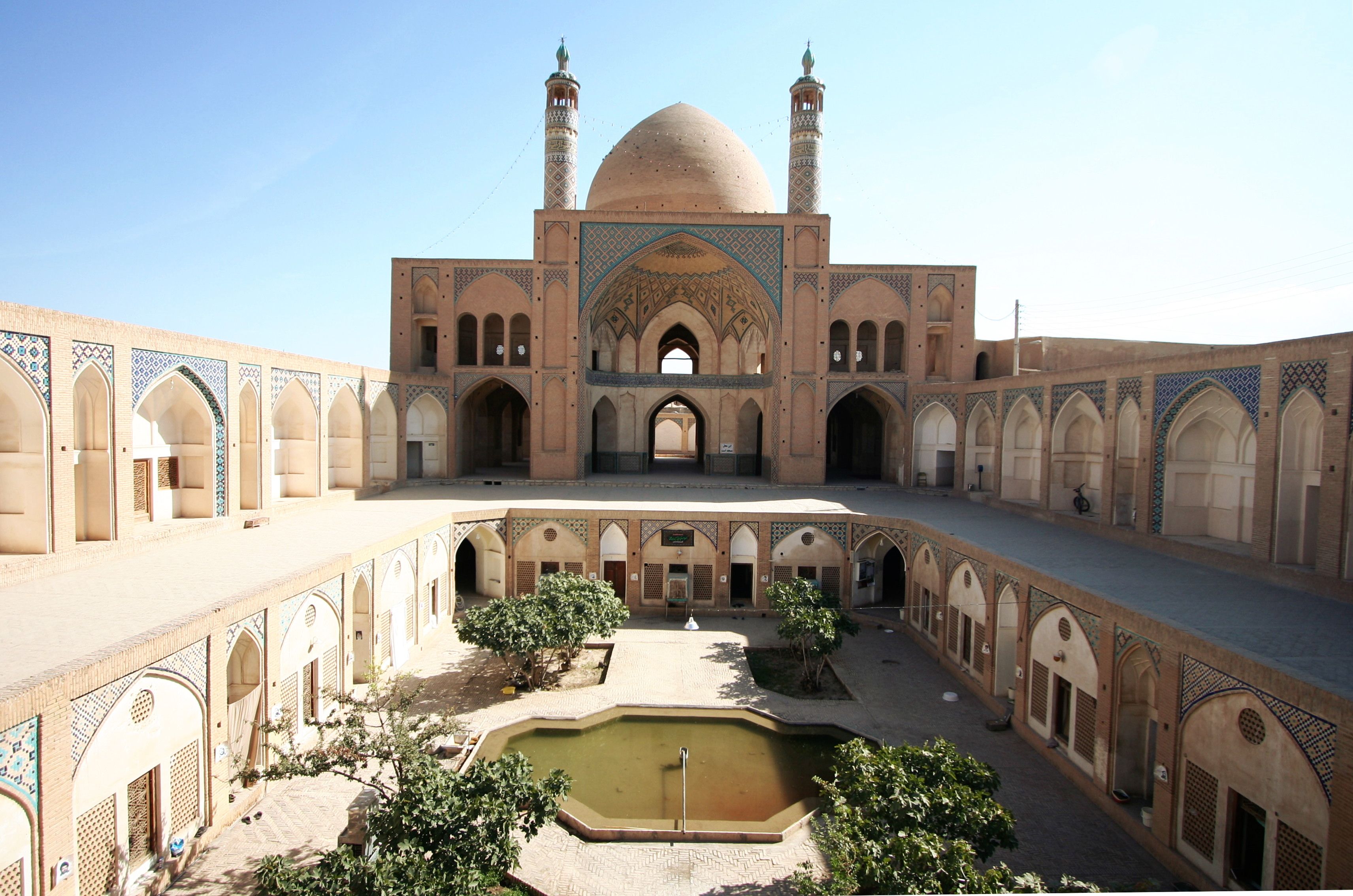 The Agha Bozorg Mosque in Kashan, Iran. The courtyard is part of the Islamic school that is integrated in the basement. Student rooms are surrounding the courtyard.